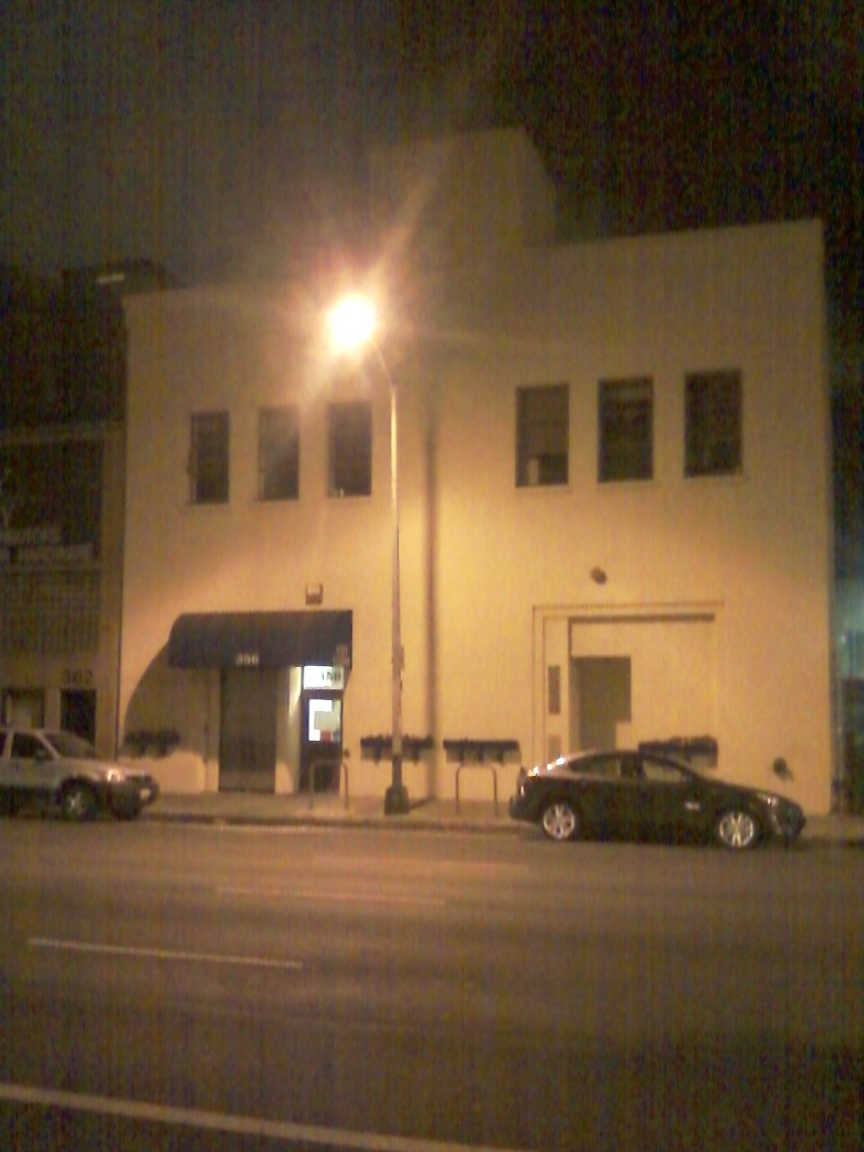 a picture i took of the outside of san francisco city clinic at night in october 2010